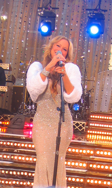 Mariah Carey performing on Good Morning America in 2005